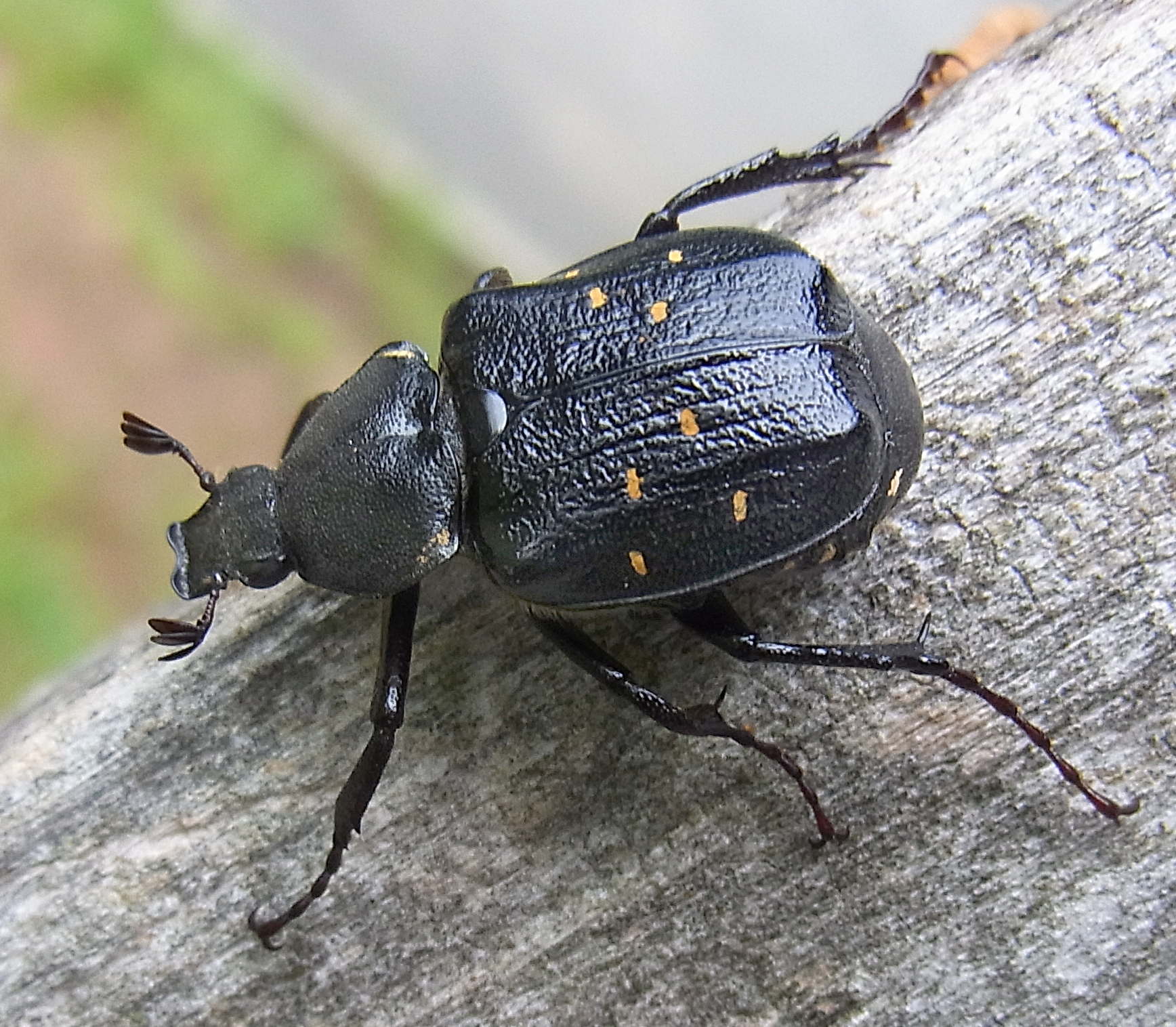 Gnorimus variabilis from Hungary, Matra-mountains near Paradfürdö at 2015-06-29